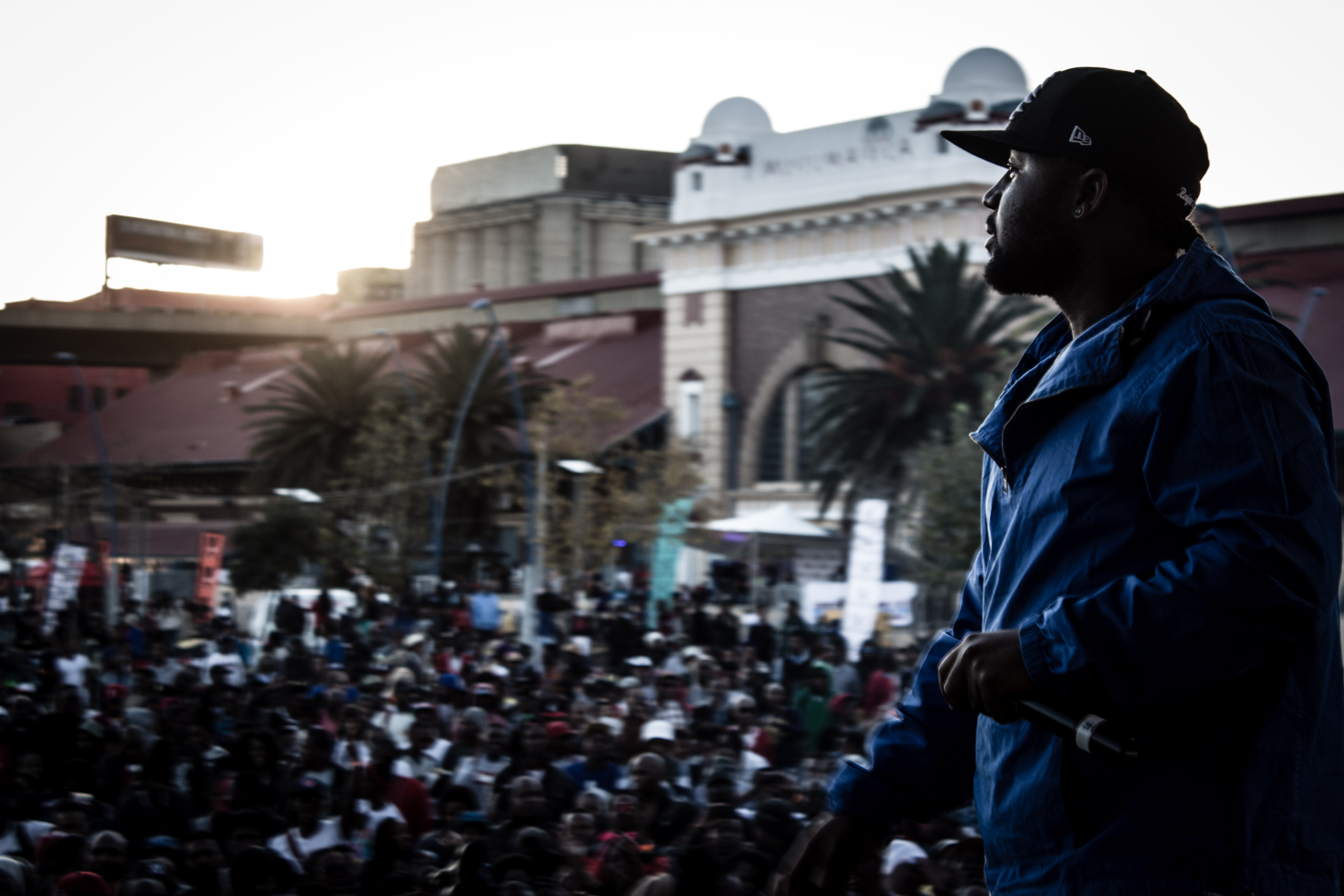 Cassper Nyovest at the 2014 Back to the City festival